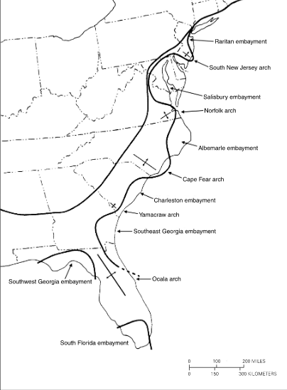 Map showing principal basins and arches of the Atlantic Coastal Plain.